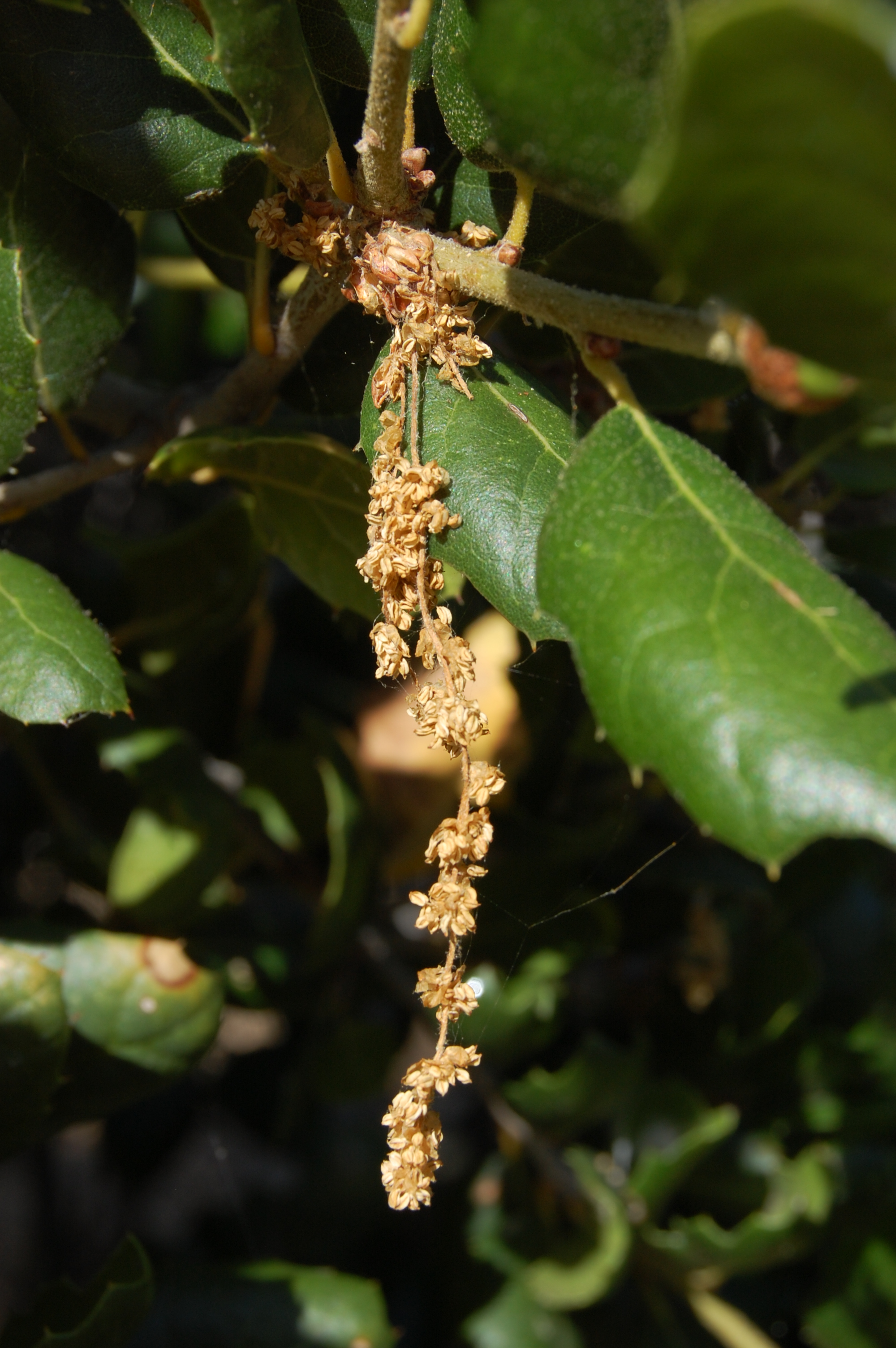 Coast Live Oak